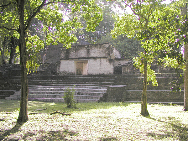 Main courtyard, Cahal Pech, Belize. Image taken by Clark Anderson/Aquaimages.